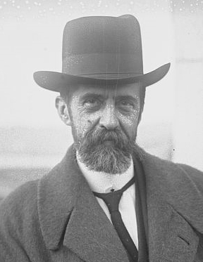 French politician André Honnorat (1868-1950)